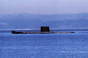 Chilean Navy Official Photo of Oberon class submarine "Hyatt"